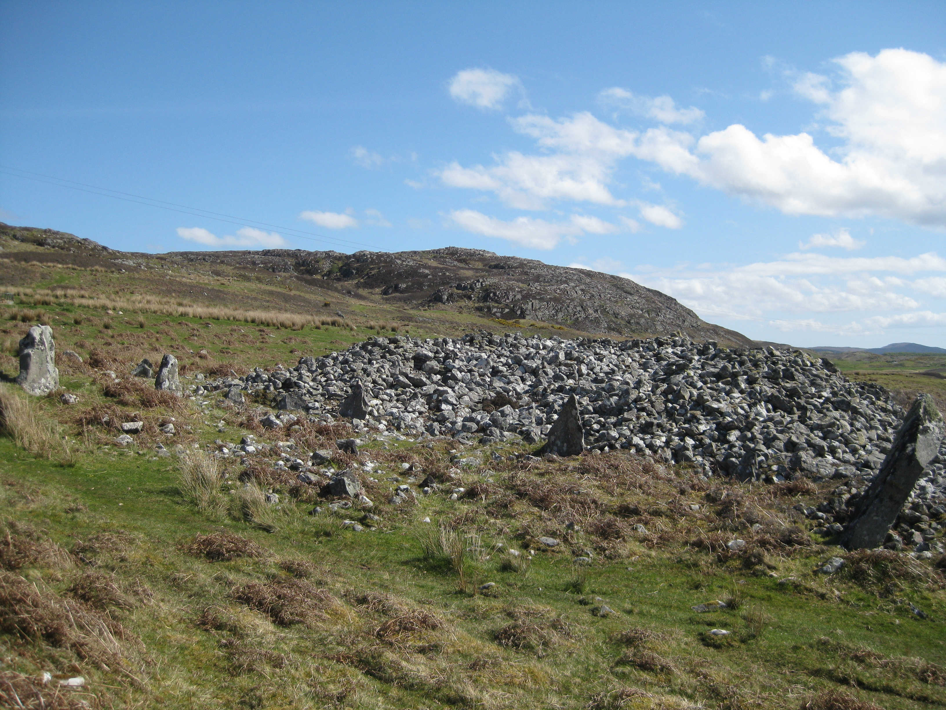 Coille Na Borgie Cairns near Bettyhill